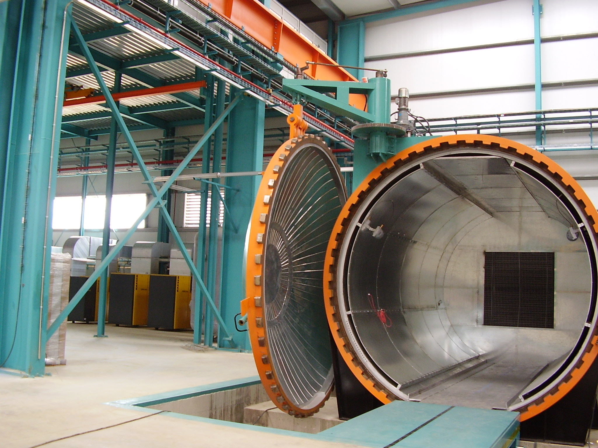 "OLMAR" Autoclave for glass lamination.